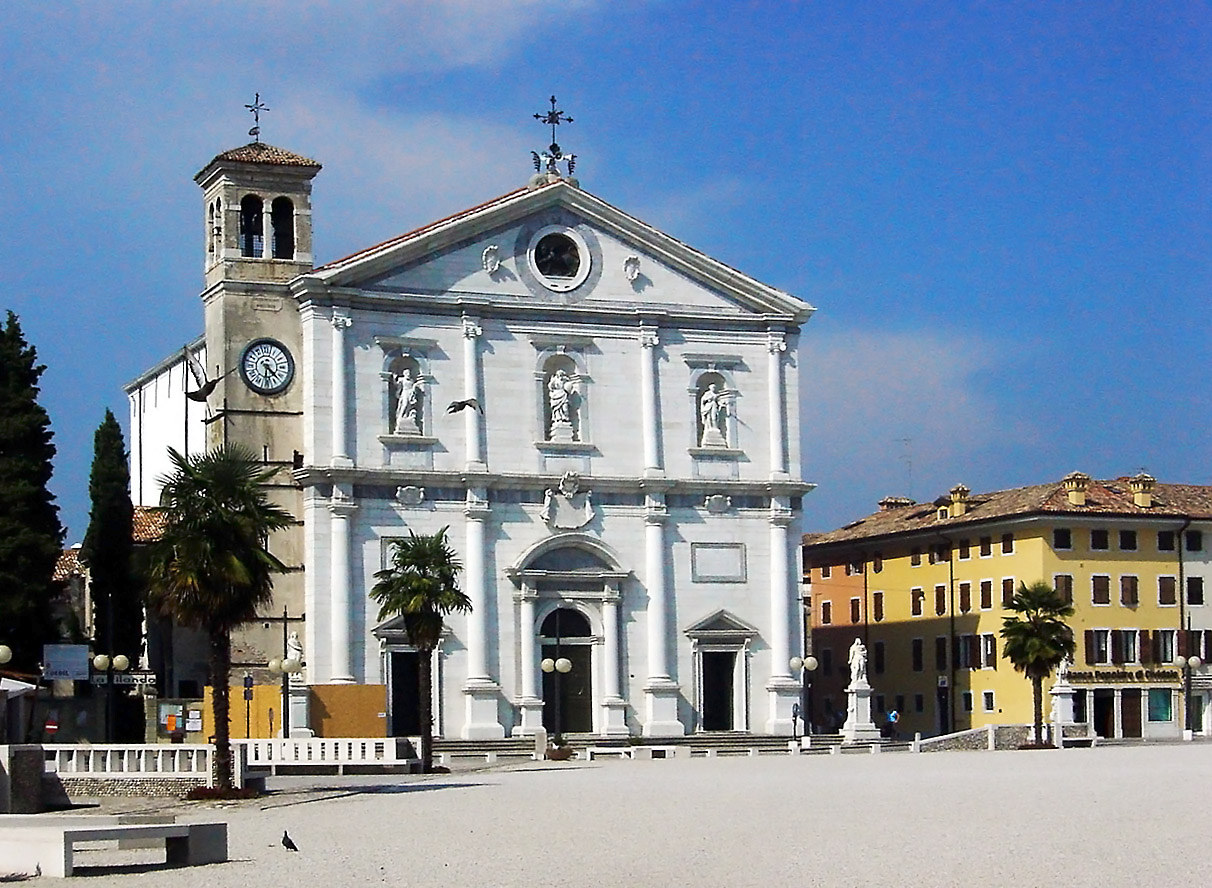 Cathedral of Palmanova. Slightly straightened and cropped.